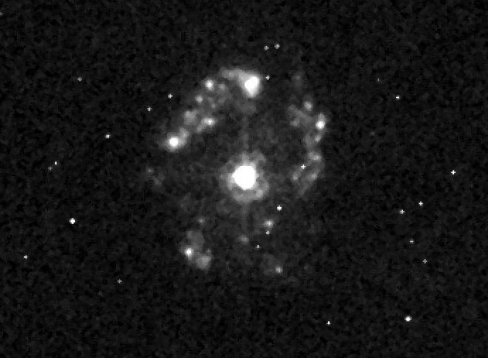 The nucleus of NGC 7469 and its circumnuclear ring by Hubble Space Telescope. Data obtained from 2002-11-20 17:20:32 to 2002-11-20 17:21:34. Observation duration 60.0 seconds. Instrument: ACS. Filter/Gradings: CLEAR1S;F330W.